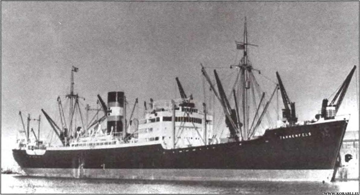 the later blockade runner TANNENFELS 1938